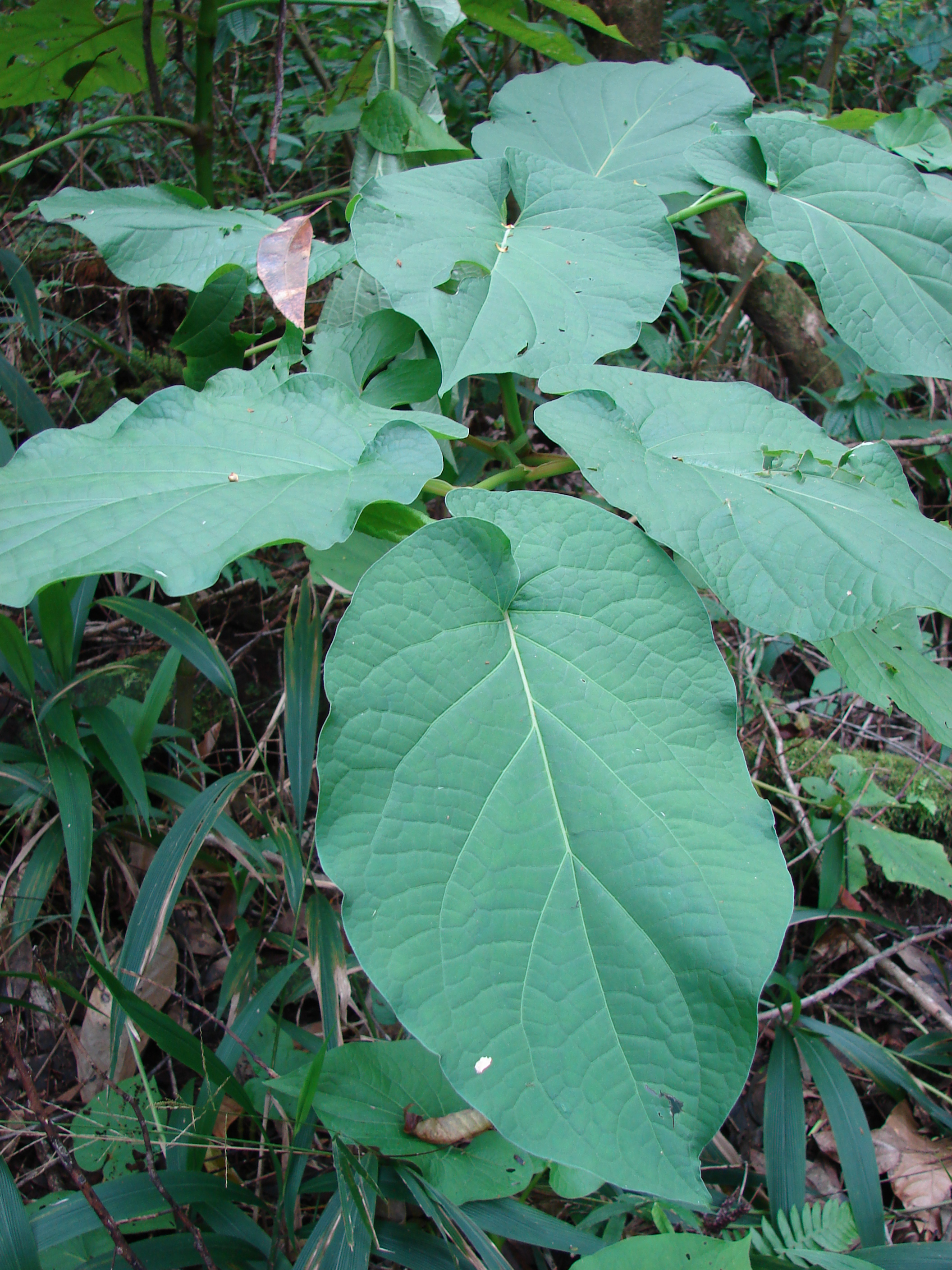 Piper auritum (leaves). Location: Maui, Hana Hwy